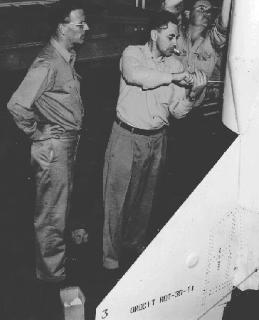 Louis G. Dunn (1908-1979), 3rd director of the Jet Propulsion Laboratory. In this 1947 photo, Dunn is shown doing last minute adjustments on a Corporal missile at the White Sands Missile Range in New Mexico, shortly before it is launched.